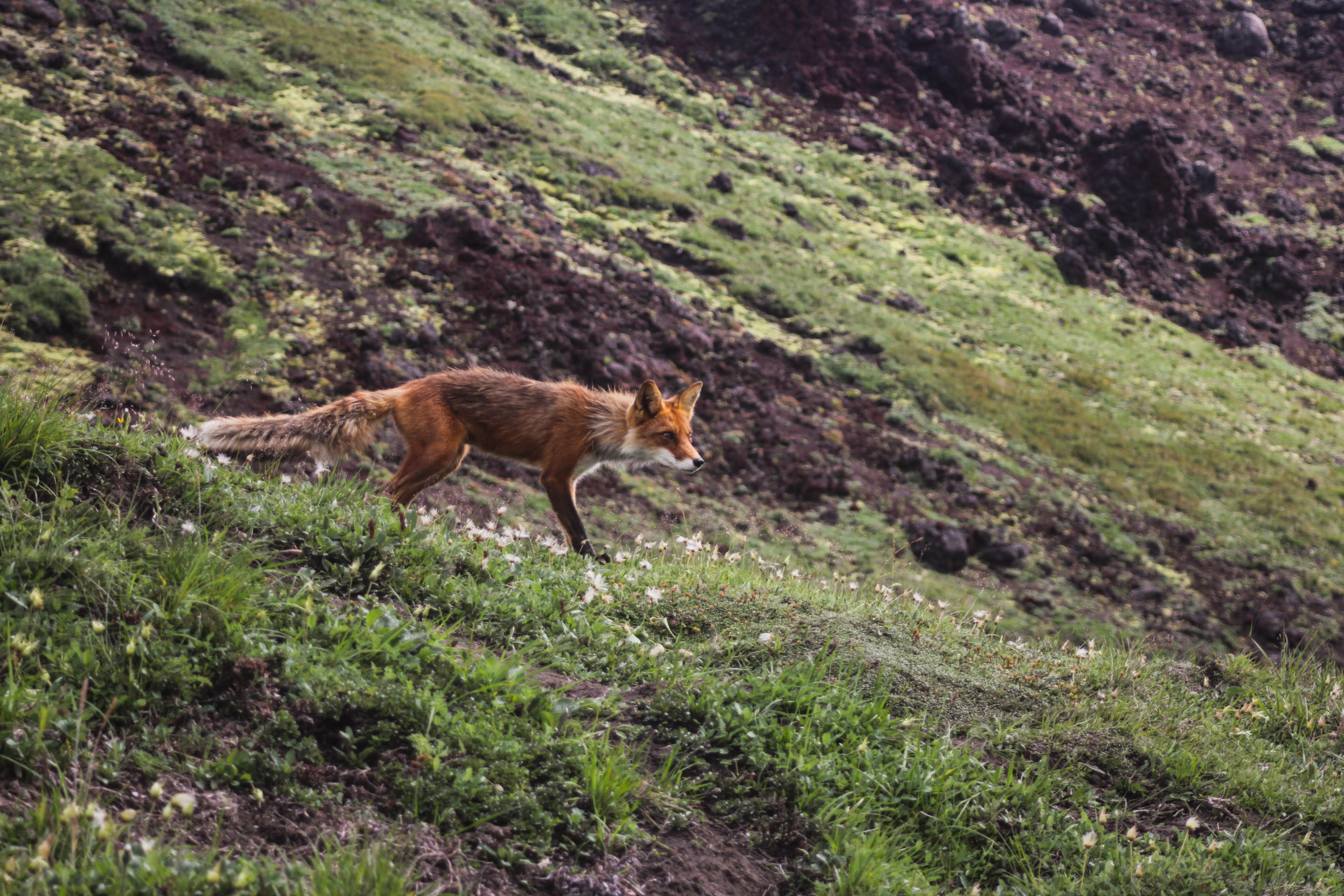 Kamchatka. Fox.